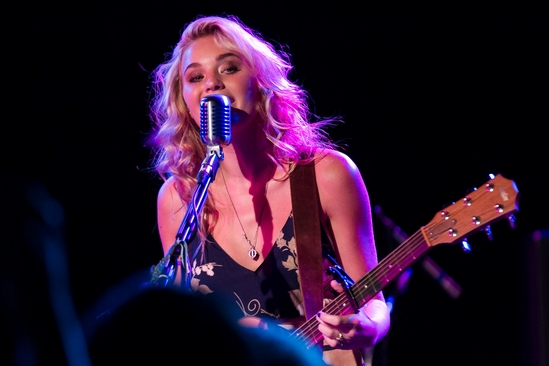 AJ Michalka live at the Roxy in June 2013 with her band 78Violet